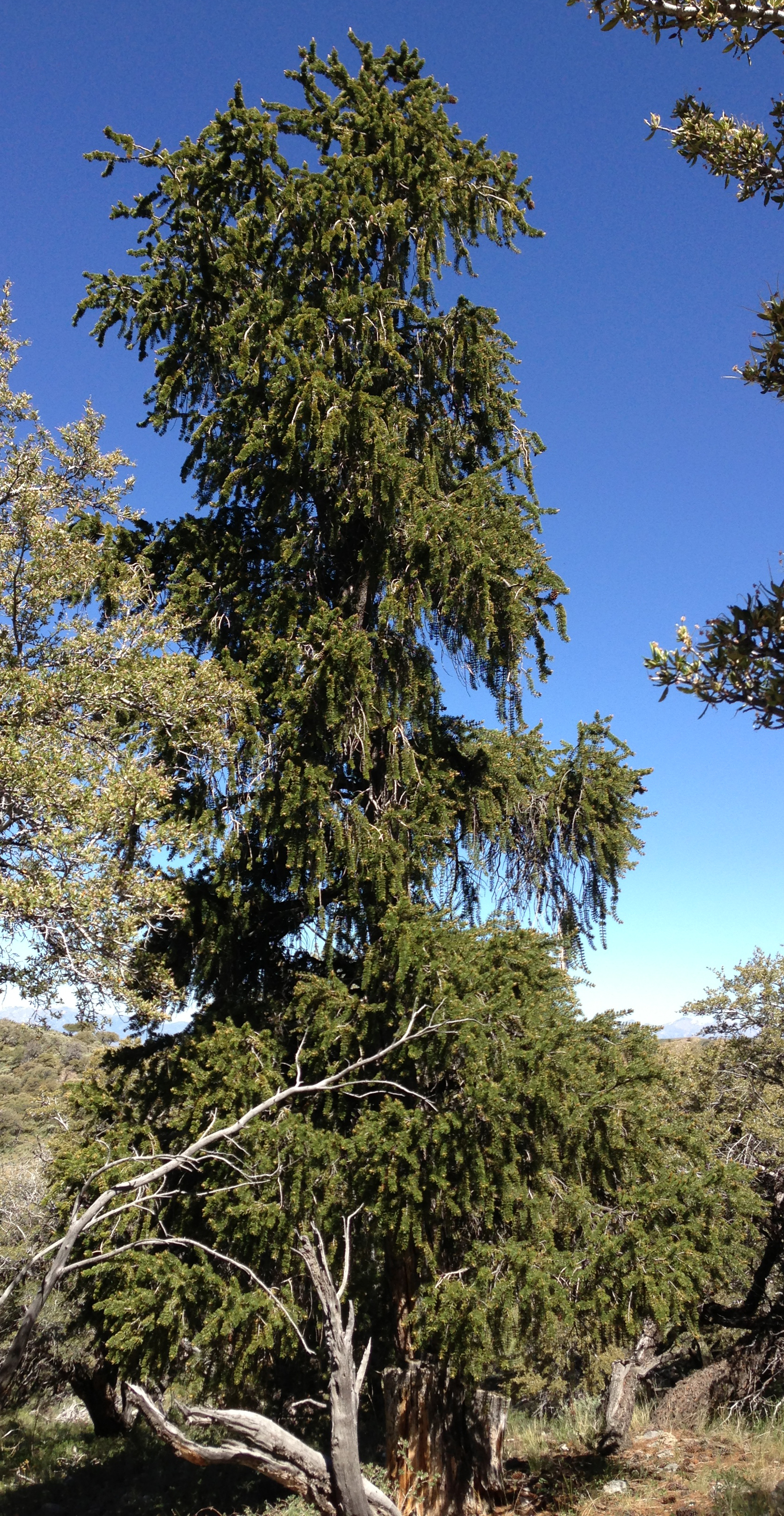 Large Pinus longaeva (Great Basin Bristlecone Pine) on Spruce Mountain, Nevada